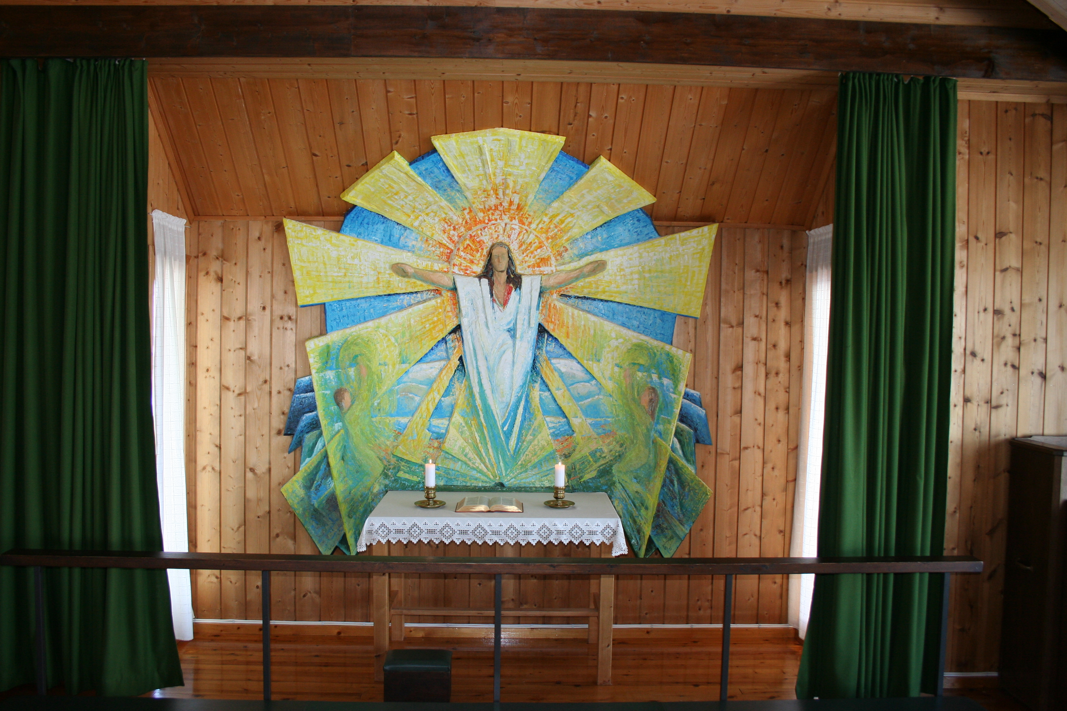 Ble sport chapel, altar